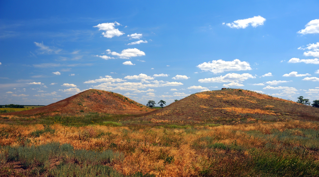 West side of a barrow